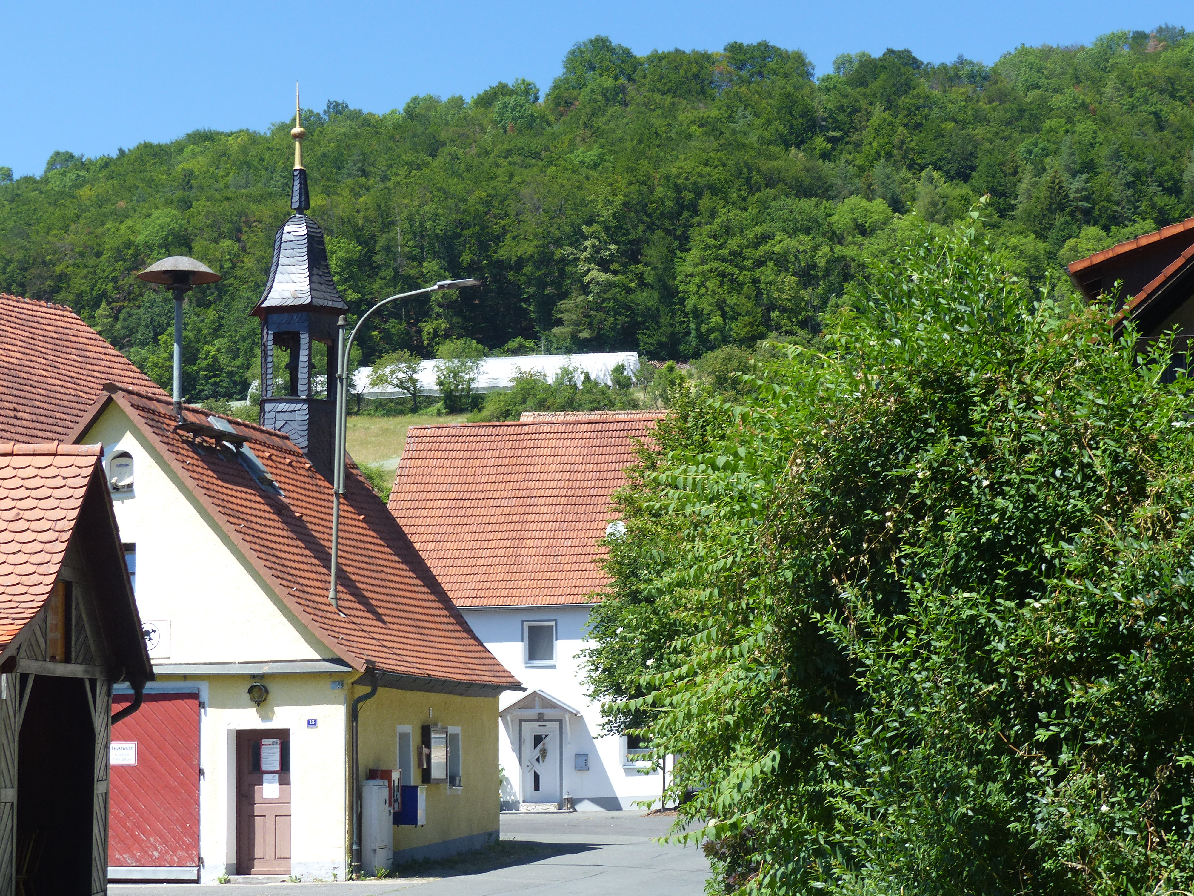 The firehouse of the village Schweinthal, a district of the municipality of Egloffstein.